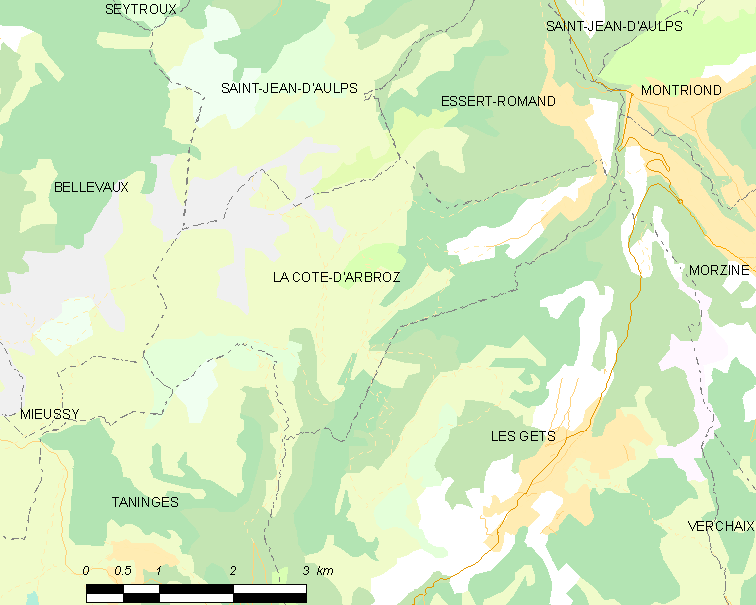 Map of French municipality La Côte-d'Arbroz